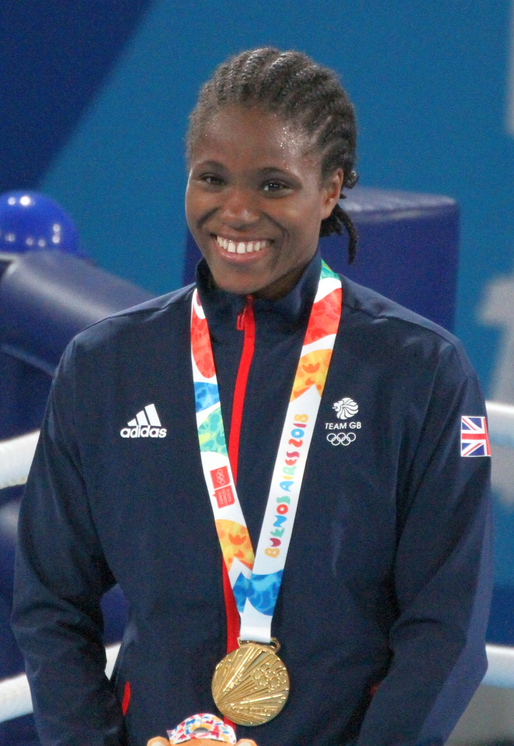 Boxing at the 2018 Summer Youth Olympics on 18 October 2018 – Girl's Lightweight Medal Ceremony - Gold: Caroline Sara DuBois (Great Britain), Silver: Porntip Buapa (Thailand), Bronze: Oriana Saputo (Argentina); Medal handover by Habu Gumel (IOC, Nigeria), Gift presented by Raymond Silvas (USA, AIBA).